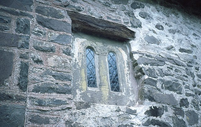 Saxon window in St Beuno's parish church, Culbone, Somerset. Note the Green Man relief in the centre of the window.